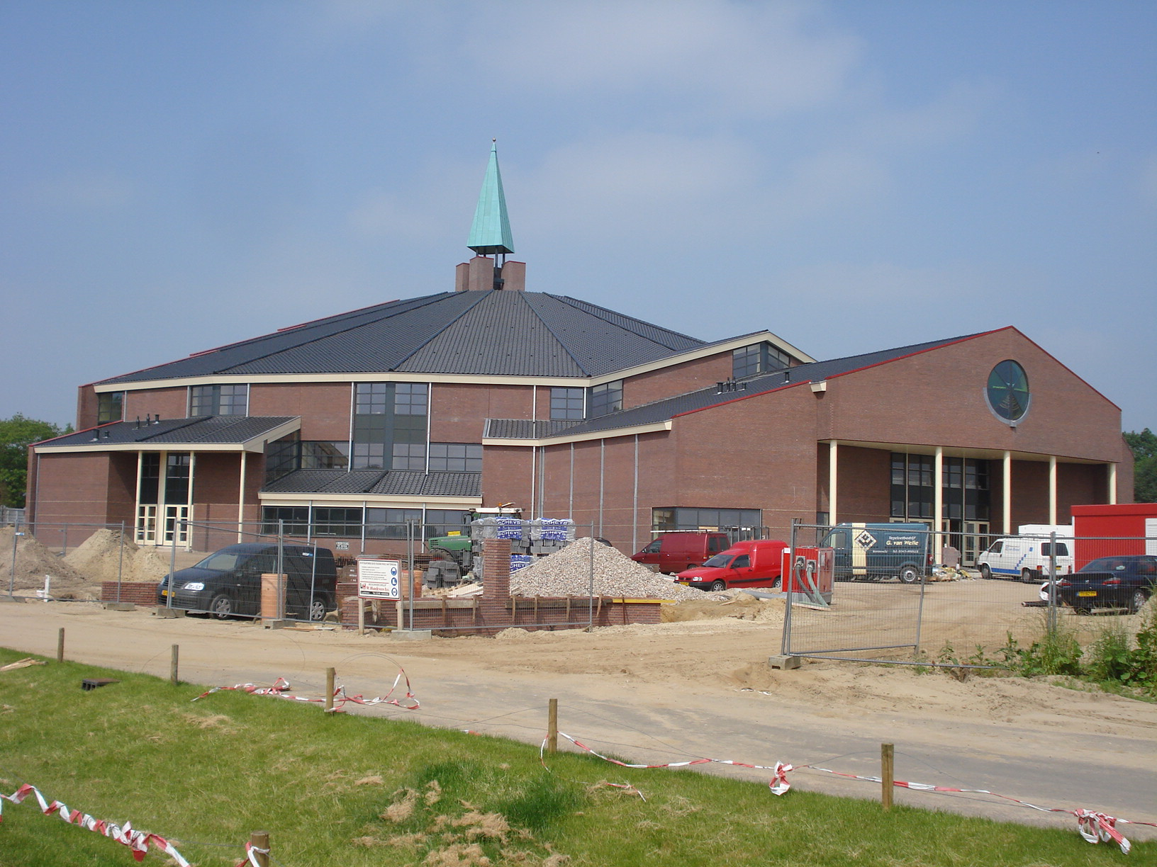 Kerkgebouw Gereformeerde Gemeente in Nederland te Barneveld tijdens de bouw in 2008